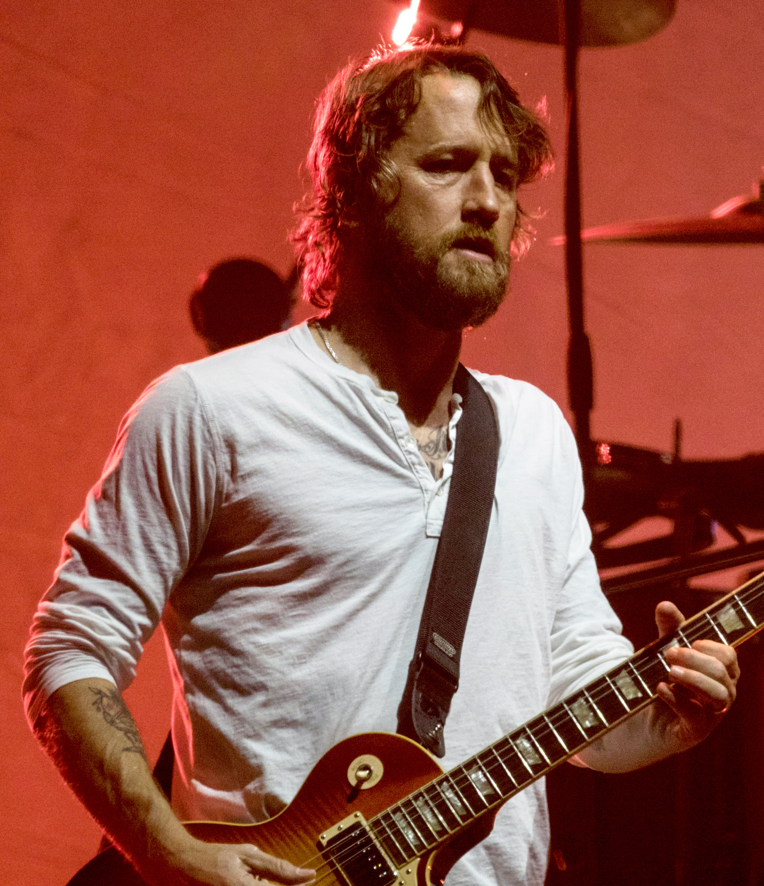 Performance of American rock band Foo Fighters at Lollapalooza Berlin 2017.